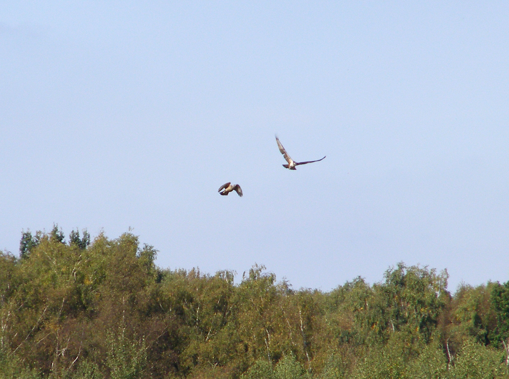 Accipiter gentilis is chasing a Pandion haliaetus